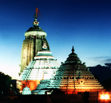 lord Jaganath temple , Puri, Odisha,India(SUNSET VIEW)